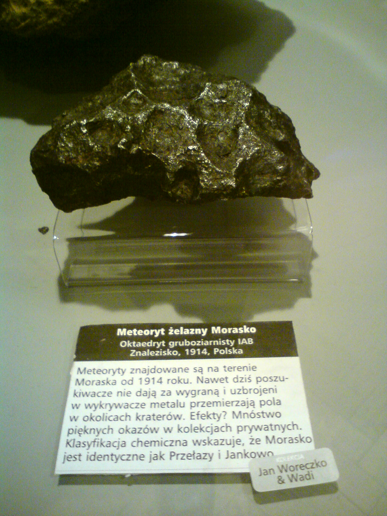 Meteorite found in Nature reserve Meteoryt Morasko, Poland